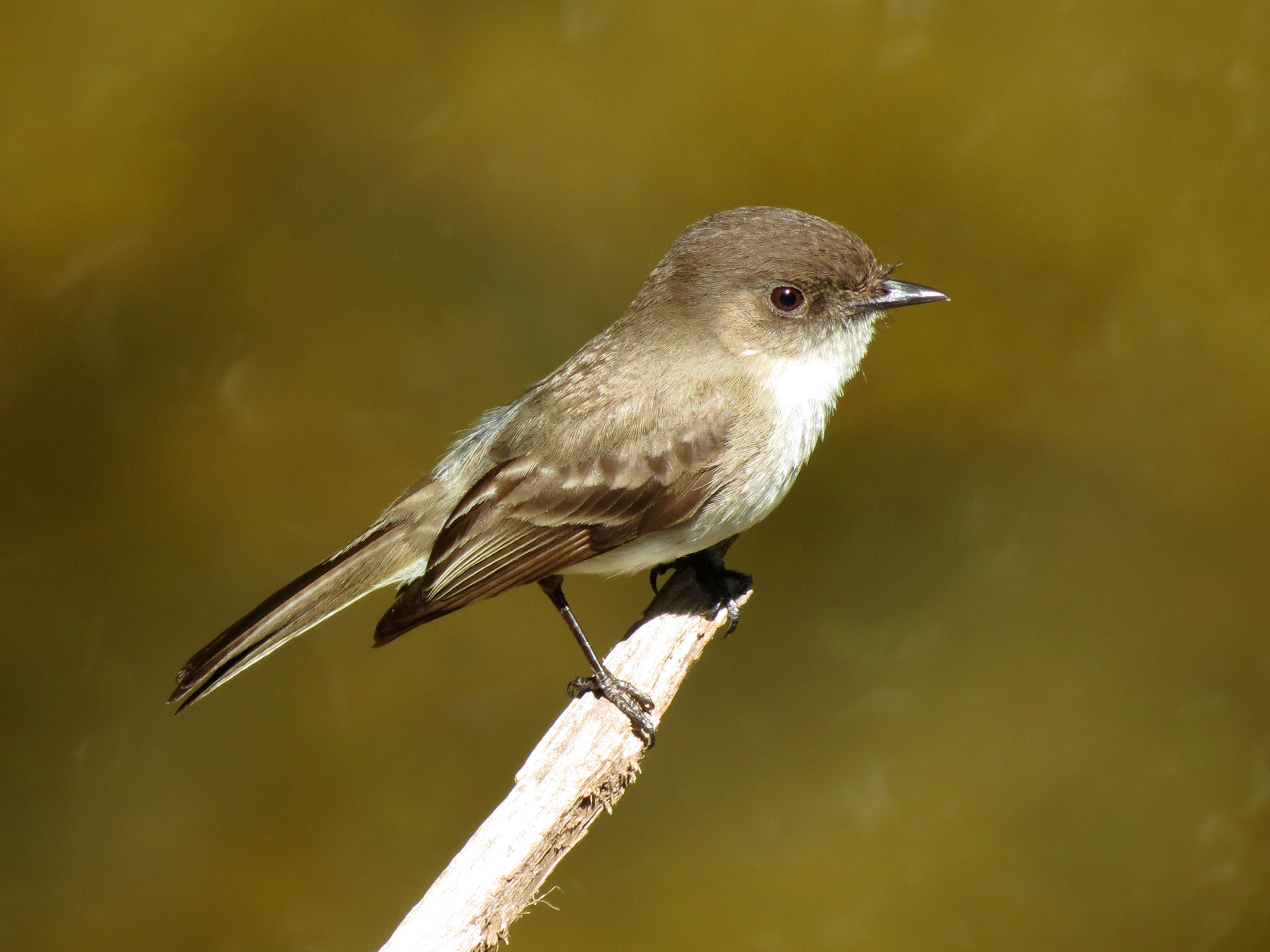 Sayornis phoebe. Rock Creek Park, Washington, DC.